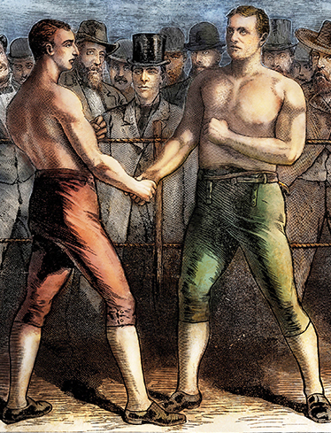 Color drawing of John L. Sullivan and Paddy Ryan before their 1882 heavyweight championship fight, shaking hands in the center of the ring.